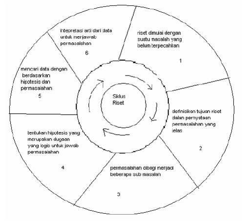 I am created this graphic by adobe photoshop